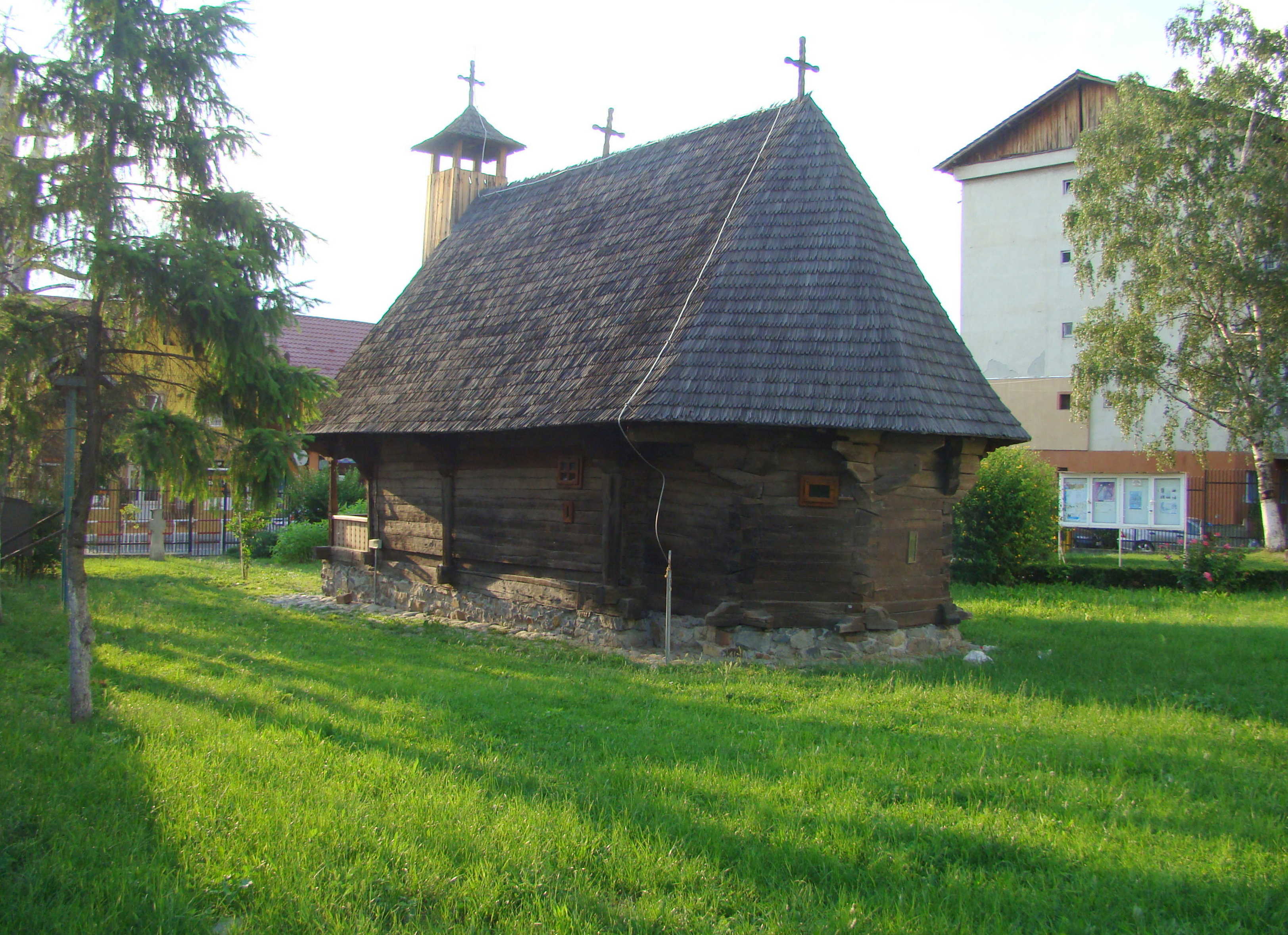 Wooden church in Covrigi, Gorj county, Romania (moved to Târgu Jiu)